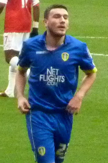 Robert Snodgrass of Leeds United